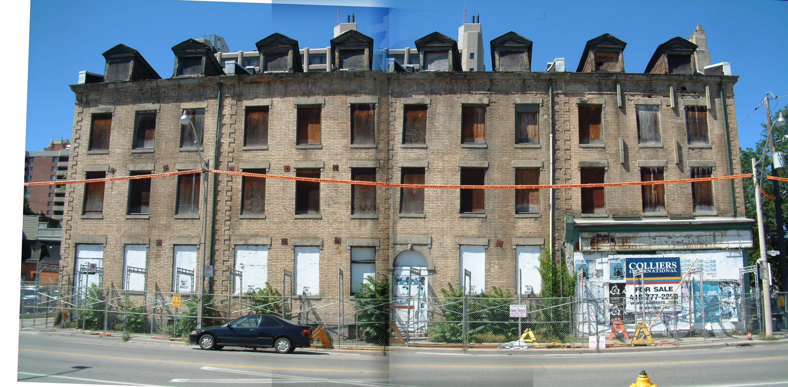 Walnut Hall on Shuter Street in 2006. Toronto, Canada.